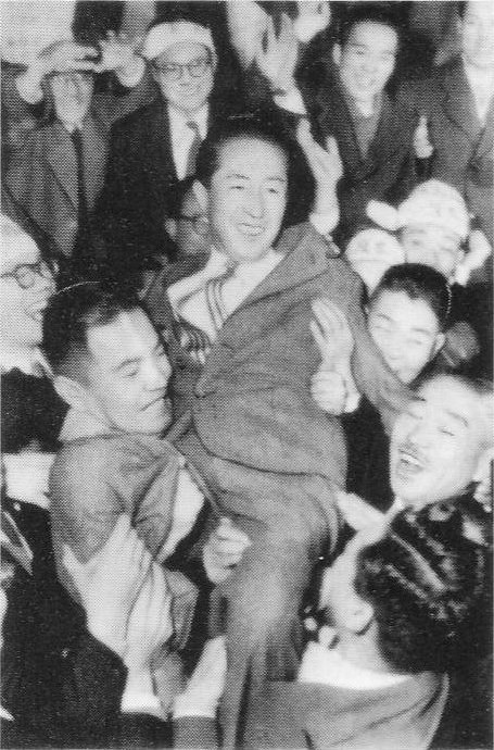 Masaru Sakamoto. Writer from Japan, Member of the House of Representatives of Japan (1942 - 1946), Mayor of Amagasaki (1951 - 1954), Governor of Hyogo prefecture (1954 - 1962). Director of Hyōgo Prefectural Museum of Art (1970 - 1975).